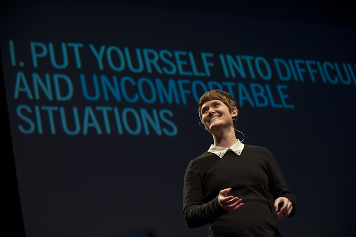 Speaker Amber Case Amber Case (Portland, Oregon) is a Cyborg anthropologist, user experience designer and public speaker "The Anatomy of an Outrageous Goal"